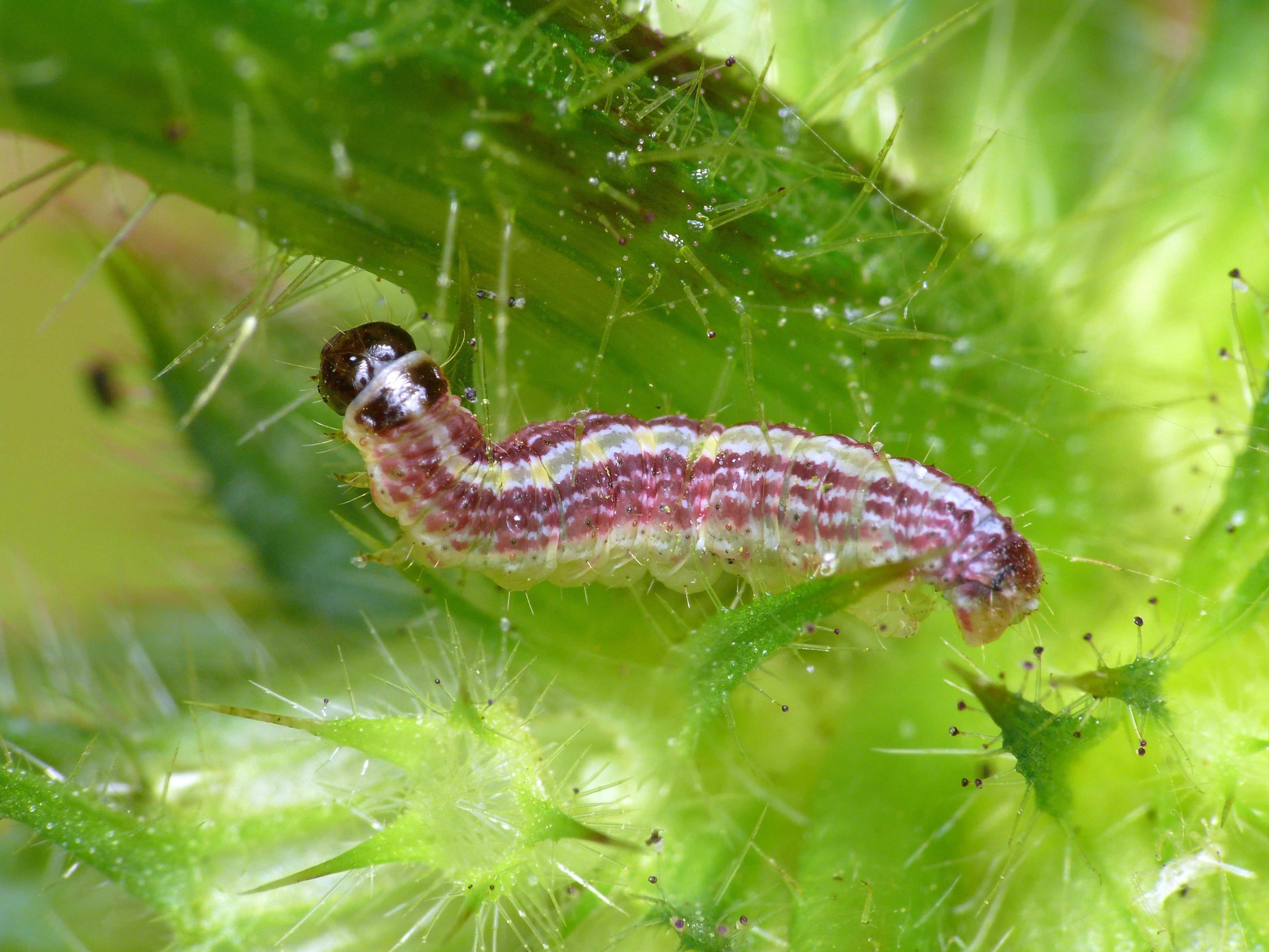 I have found quite a few of these larvae in the 'wild' part of the garden recently. They feed on the flowers and seeds of Common Hemp-nettle. The intensity of the markings seems to be quite variable, this one being quite boldly marked.